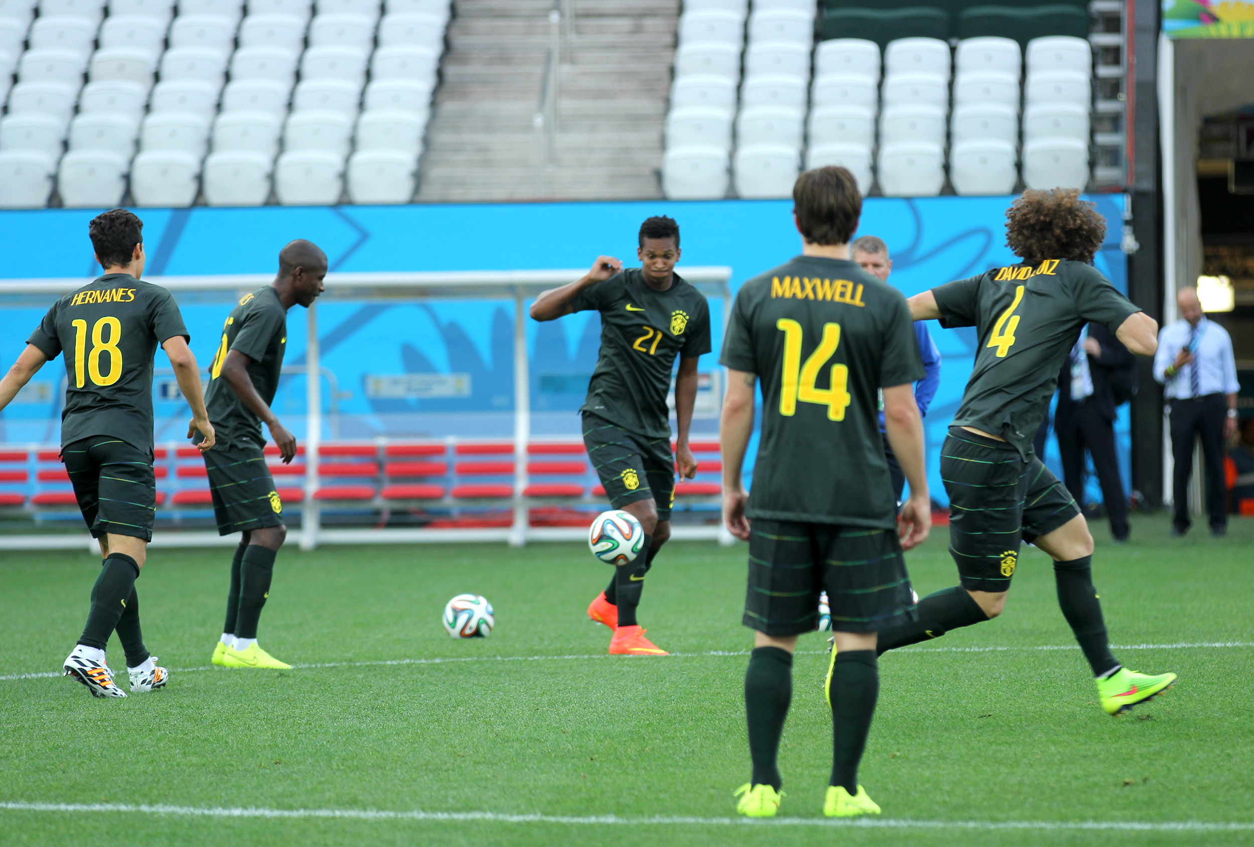 Brazil national team training for 1 day before the start of the first game of the 2014 World Cup qualifier against Croatia 2014-06-11